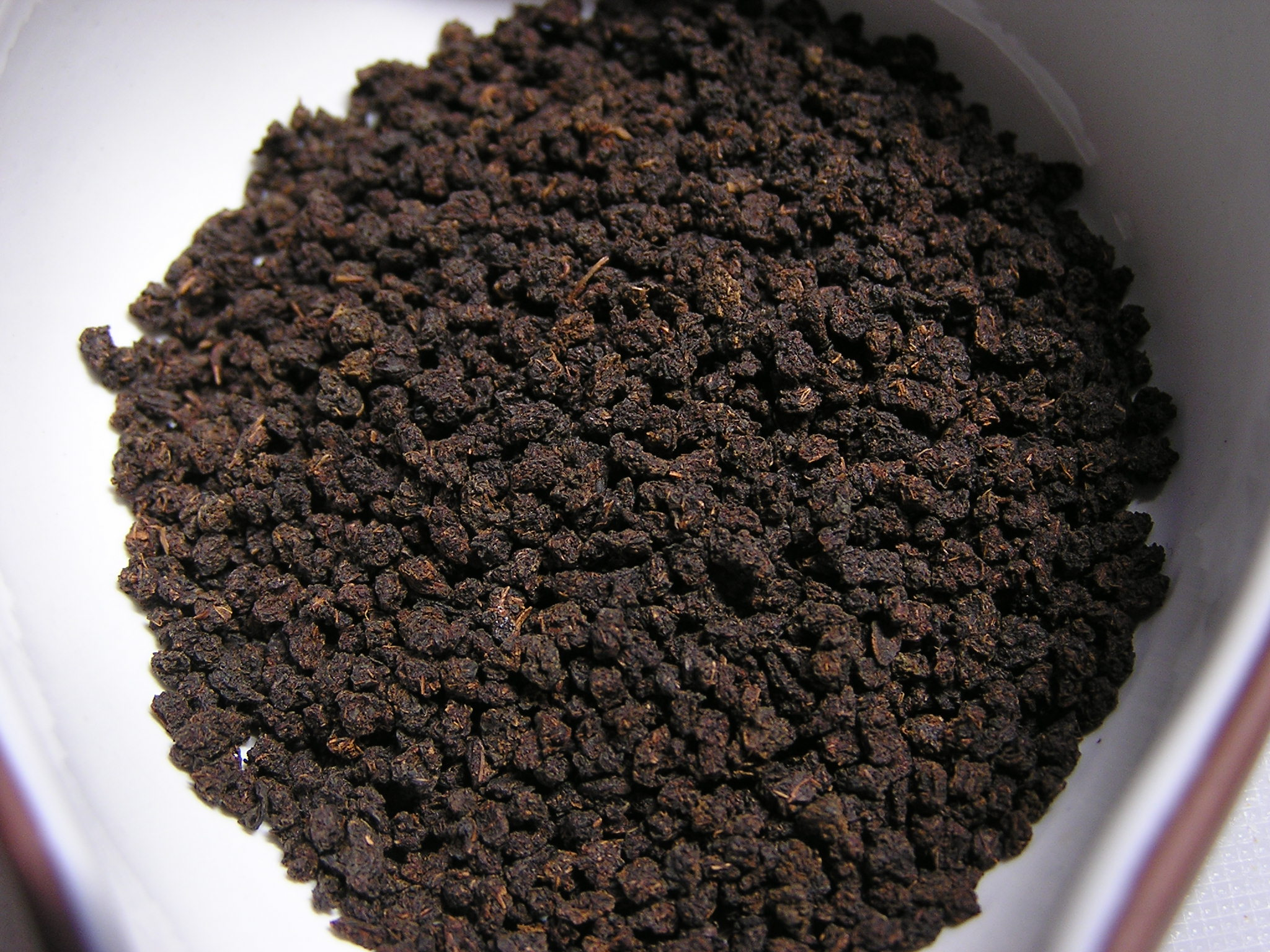 Its tea leaf made by CTC(Crush, Tear and Curl), its bought from Hanamizuki(Ibaraki, Japan) in 2009.